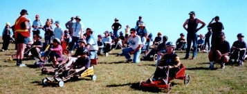 This is a digital image taken by me. It has been uploaded as a low res file to preserve anonymity. It depicts participants in the Scout Billy Cart Derby event at Rooty Hill NSW